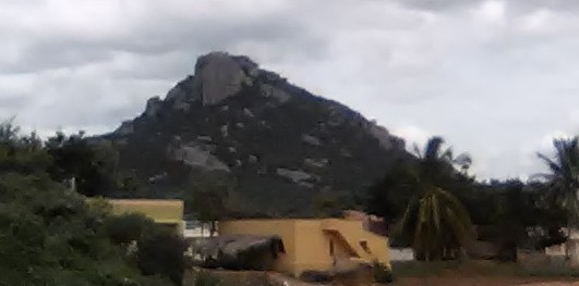 பாலகொண்ணராயதுர்கம் மலை தேசிய நெடுஞ்சாலை மேல்மலை அருகில் தேசிய நெடுஞ்சாலை எண்7 இல் இருந்து தோற்றம்